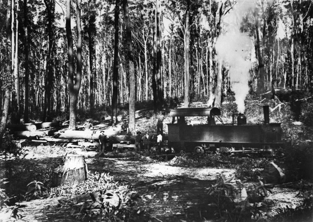 McKenzie's Tramway Locomotive, Fraser Island, Queensland, ca. 1920. This steam locomotive was purchased from the Queensland Goverment Railways. It was used to construct the Townsville Jetty and subsequently in shunting at Townsville. McKenzie operated on Fraser Island from 1919 to 1925. (Description supplied with photograph.).